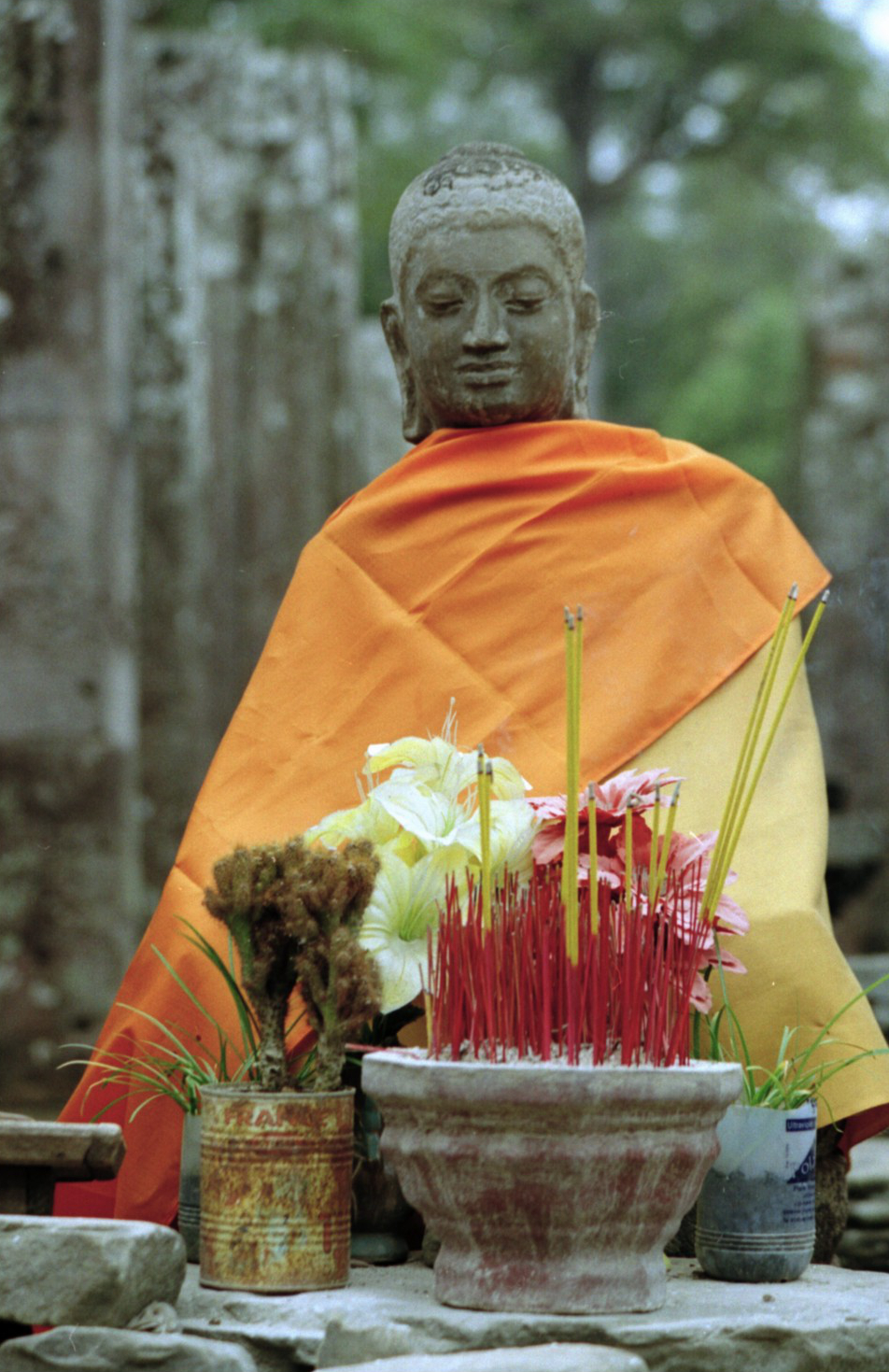 Buddha statue on one of the Buddhist terraces of Angkor Thom, Cambodia (January 2005). Photo by Peter Rimar.